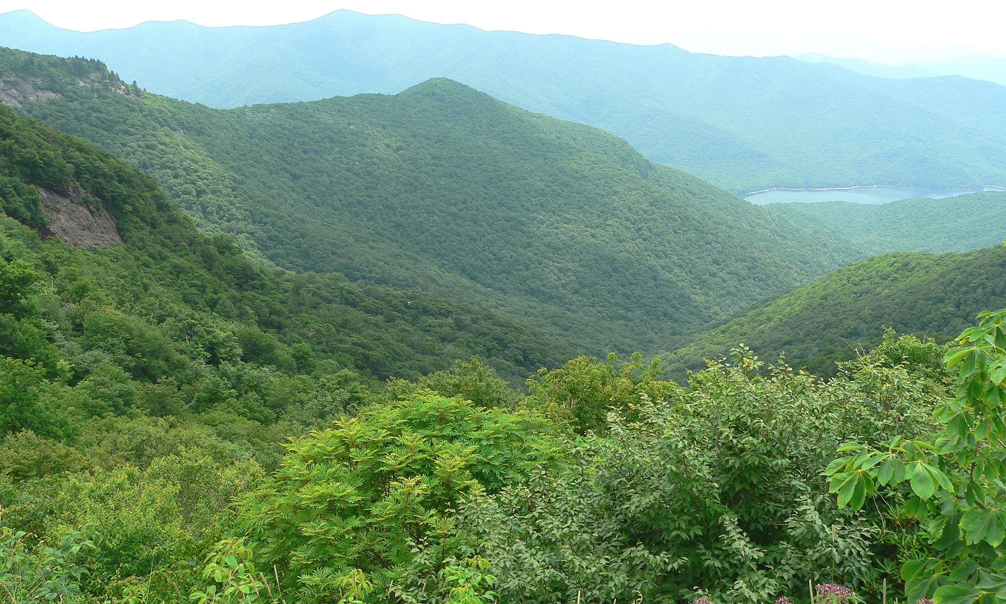 Looking down from the Blue Ridge Parkway near Craggy Gardens. Photo taken with a Panasonic Lumix DMC-FZ20 in Yancey County, North Carolina, USA.